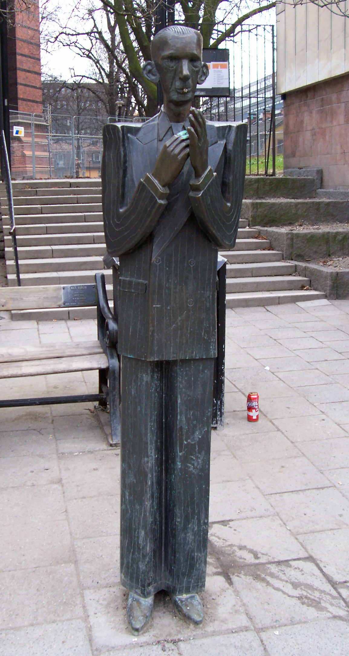 Statue of Swedish poet Nils Ferlin (1898–1961) by Karl Göte Bejemark (1922–2000), erected 1982 outside Klara kyrka in Stockholm, Sweden.